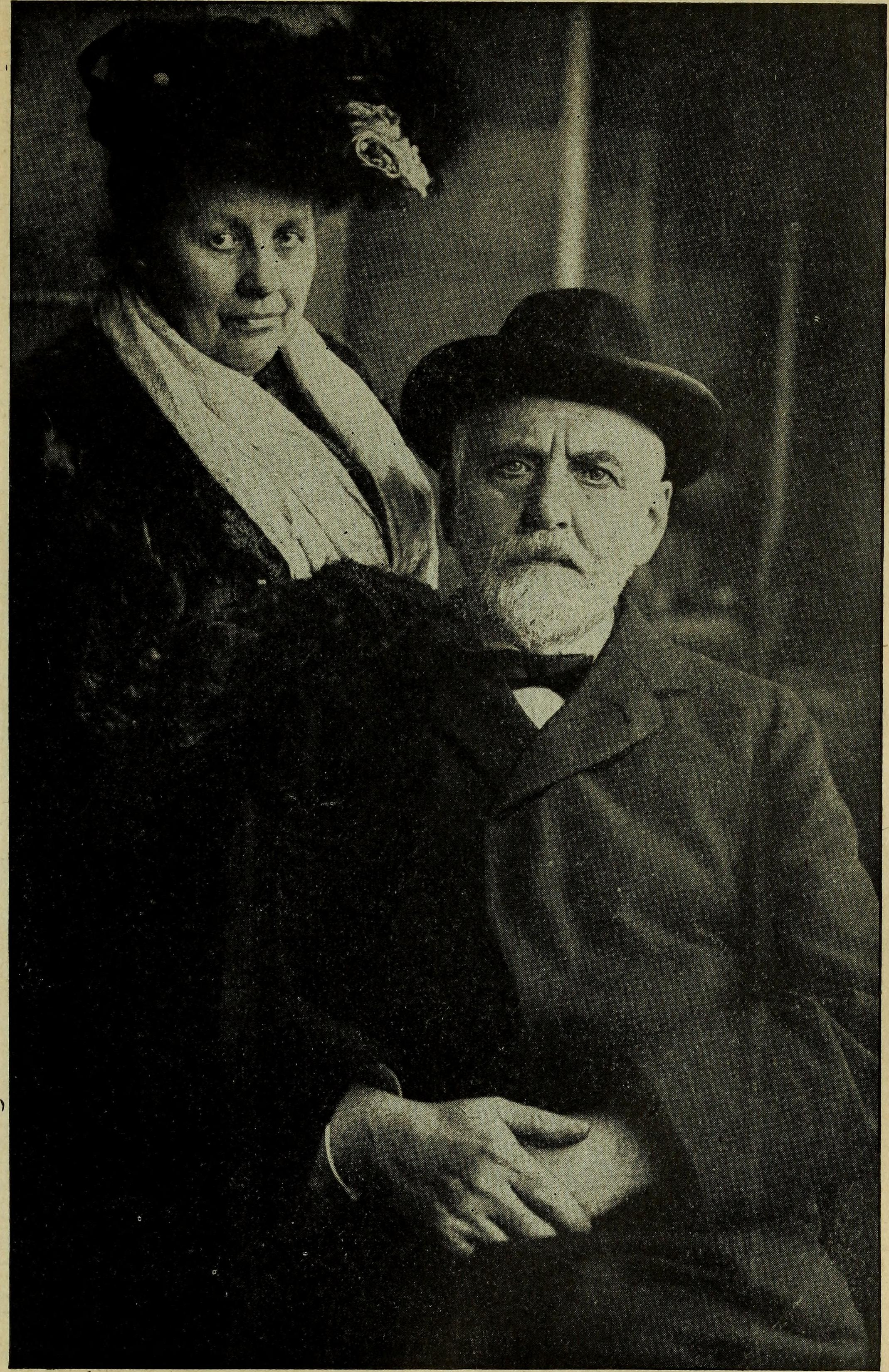 Title: Wreck and sinking of the Titanic : the ocean's greatest disaster : a graphic and thrilling account of the sinking of the greatest floating palace ever built, carrying down to watery graves more than 1,500 souls : giving exciting excape from death and acts of heroism not equalled in ancient or modern times, told by the survivors ; edited by Marshall Everett Year: 1912 (1910s) Authors: Everett, Marshall Subjects: Titanic (Steamship) Shipwrecks Publisher: (S.l. : L.H. Walter) Text Appearing Before Image: ant think how it felt out there alone byourselves in the Atlantic. And there were so manyshooting stars; I never saw so many in all my life. Youknow they say when you see a shooting star some one isdying. We thought of that, for there were so manydying, not far from us. It was so long, such a long, long night. At lastthere was a little faint light. The first thing we sawwe thought was one of the Titanics funnels sticking outof the water. But it wasnt; it was the raft, the collaps-ible boat that didnt open, with twelve men on it, stand-ing close together. They came up to us and demandedthat we take them. But we thought they ought to saywho they were; we were already pretty full and thewater was getting rough. But they said they wouldjump in anyhow, so we let them come aboard, as weknew that jumping would surely capsize us. They wereall stewards and waiters, men of the service of theTitanic. After we took them in it got stiU rougher, sothat we sometimes shipped water. In fact, there was Text Appearing After Image: MR. AND MRS. WILLIAM T. STEADThe great educator and editor, Mr. Stead, mourned by the wholeworld, went down with the Titanic